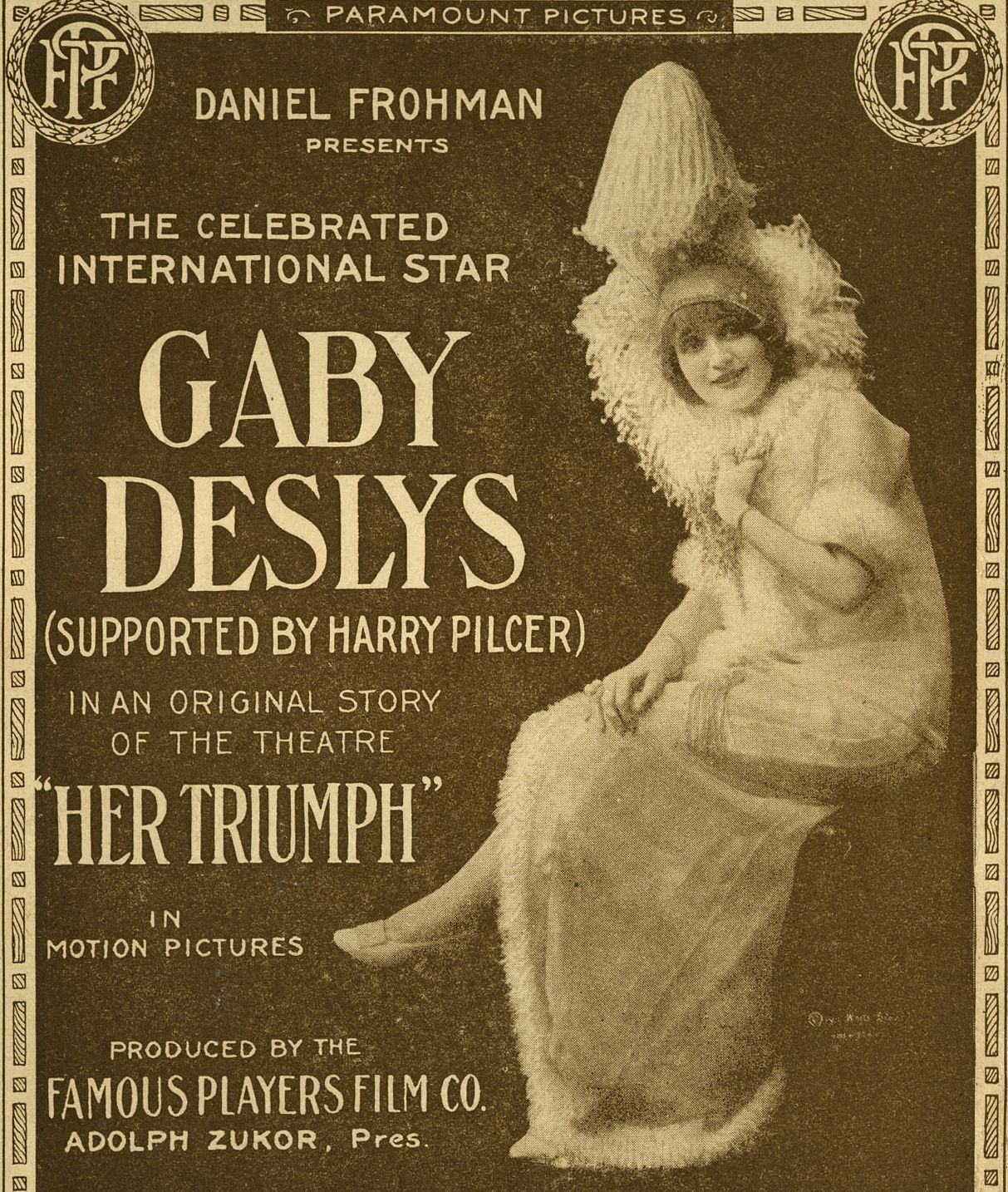 A poster from actress and singer Gaby Deslys (1881-1920) in the film Her Triumph (1915).